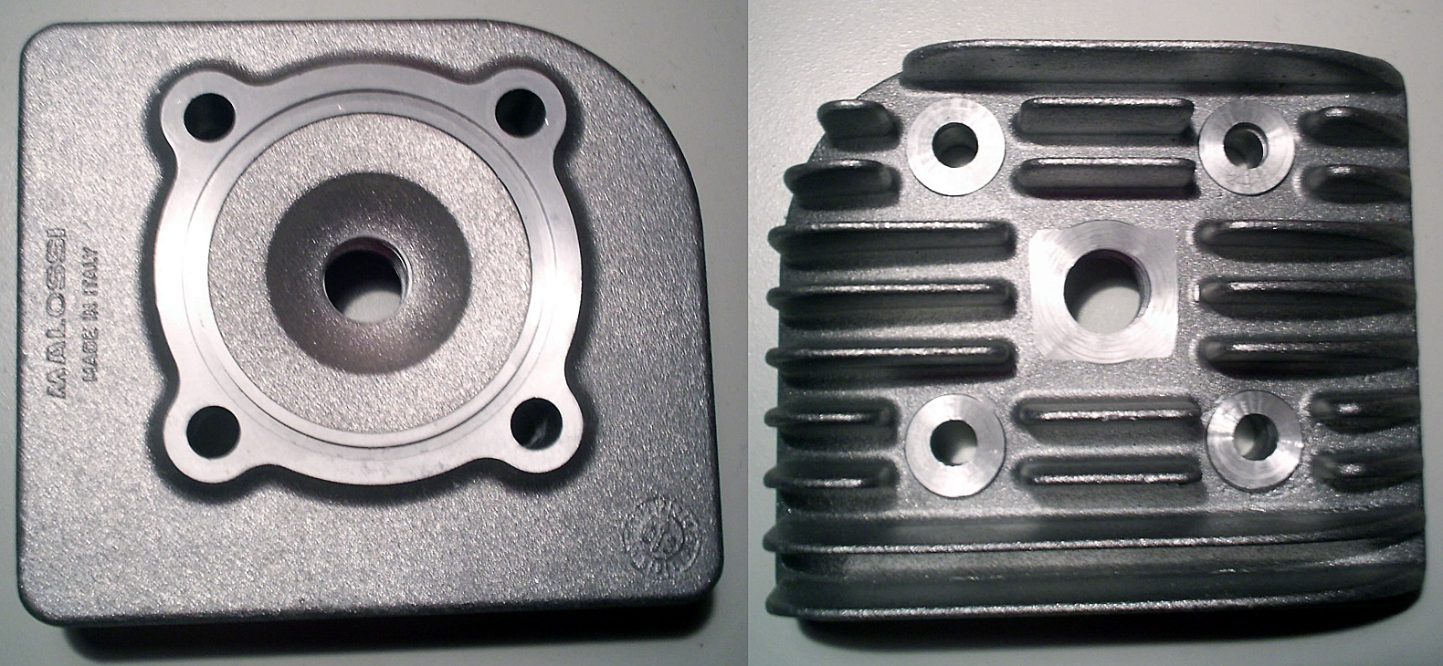 A Malossi cylinder head for 70 cc big-bore cylinders for Morini scooter engines (original bore of 49.9 cc). Picture taken and released into the public domain by User:Kallemax.